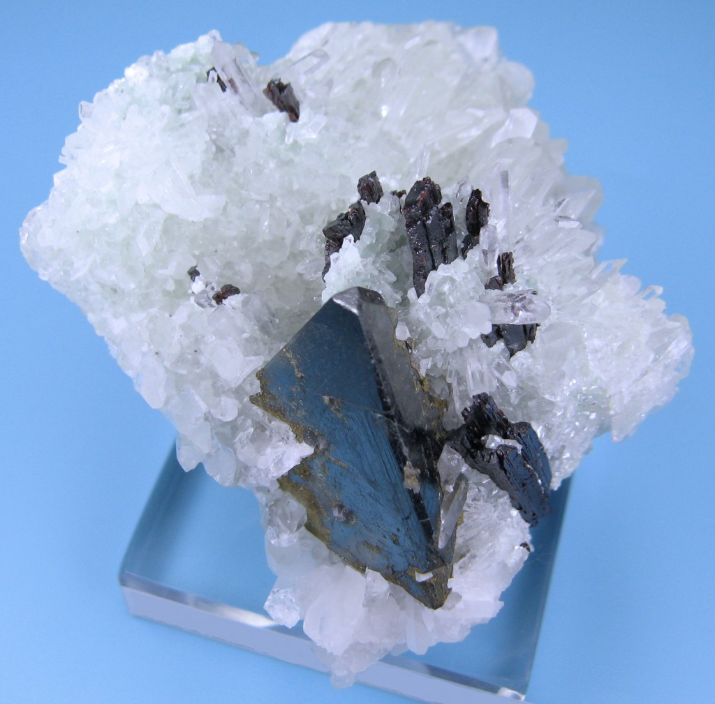 Tetrahedrite, Hübnerite and Quartz Locality: Mundo Nuevo Mine, Huamachuco, Sanchez Carrion Province, La Libertad Department, Peru Original description: Miniature specimen with a single tetrahedral tetrahedrite crystal and some dark red to black hübnerite crystals set on a bed of crystallized colorless quartz. Overall size: 61 mm x 57 mm. Tetrahedrite crystal edge: 25 mm long. Weight: 110 g. I can't see any damage except in the periphery (the chip on the tetrahedrite edge seems to be a rehealing).